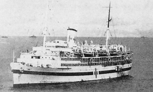 The U.S. Navy hospital ship USS Solace (AH-5) at anchor, date and location unknown.